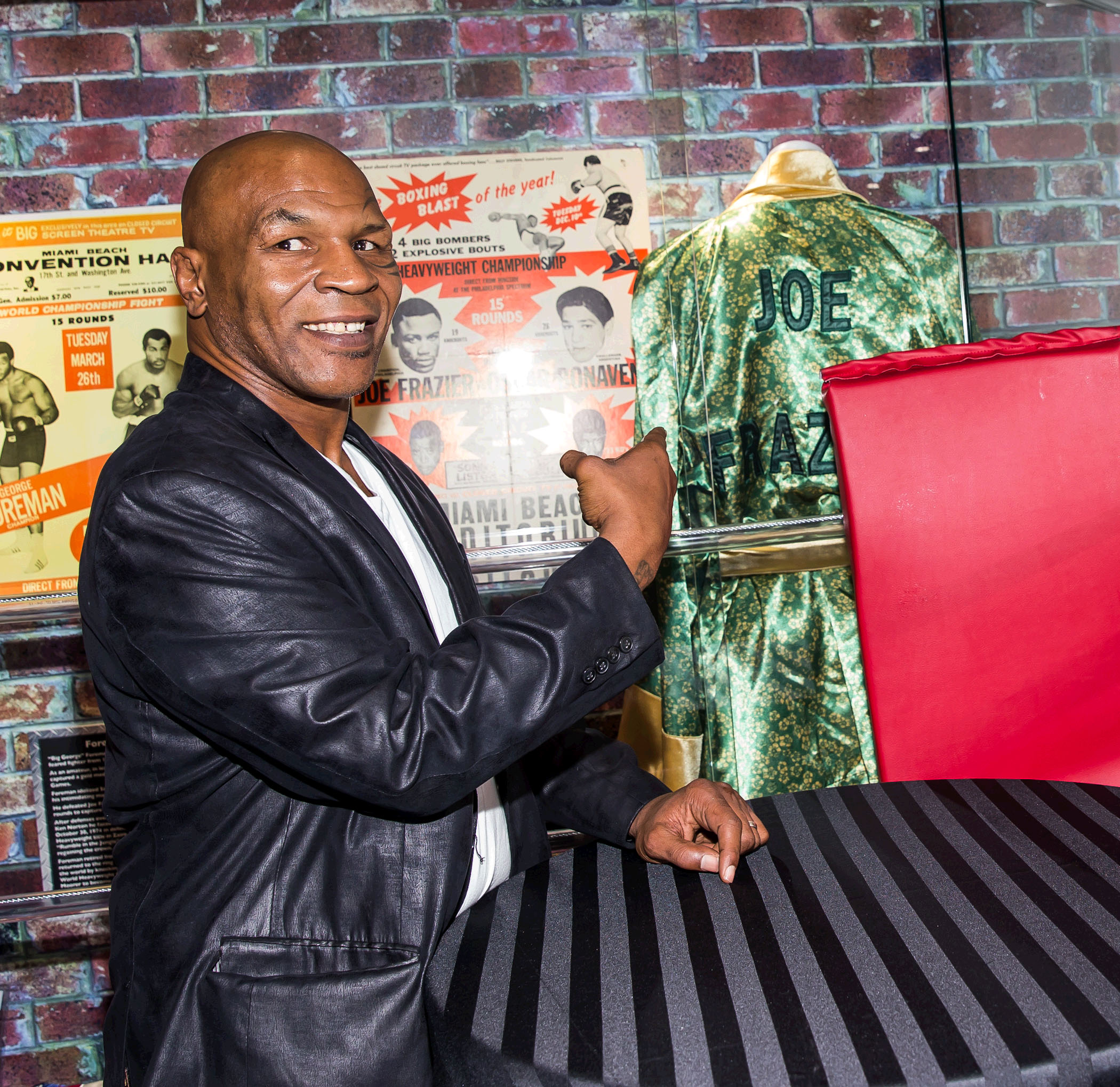 Mike Tyson at the Heavyweight Exhibit at Boxing Hall of Fame, Luxor Hotel, Las Vegas, Nevada